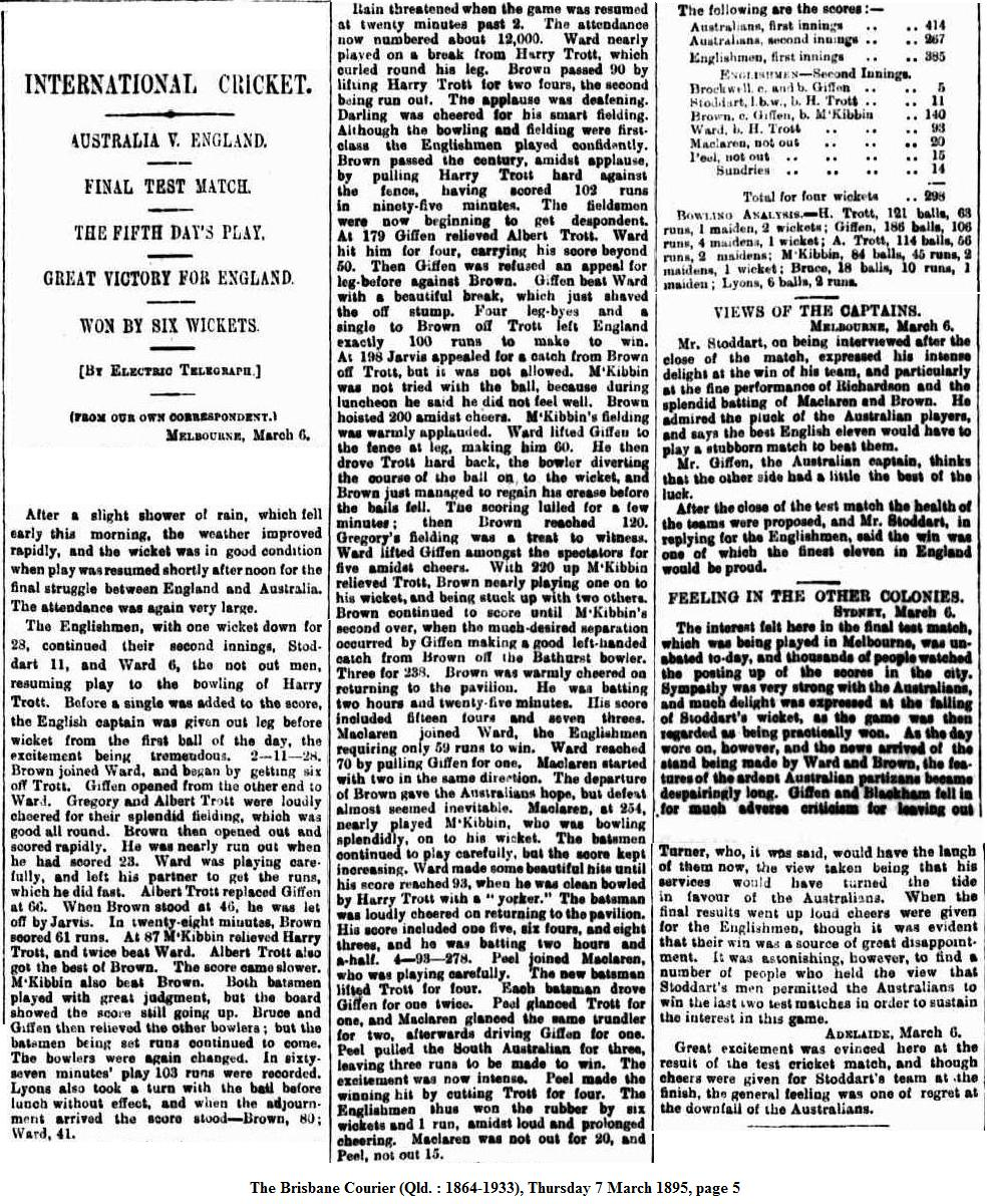 from the National Library Australian newspapers digitisation program which are pre-1955 so no copyright: "The service includes newspapers published in each state and territory from the 1800s to the mid-1950s, when copyright applies."